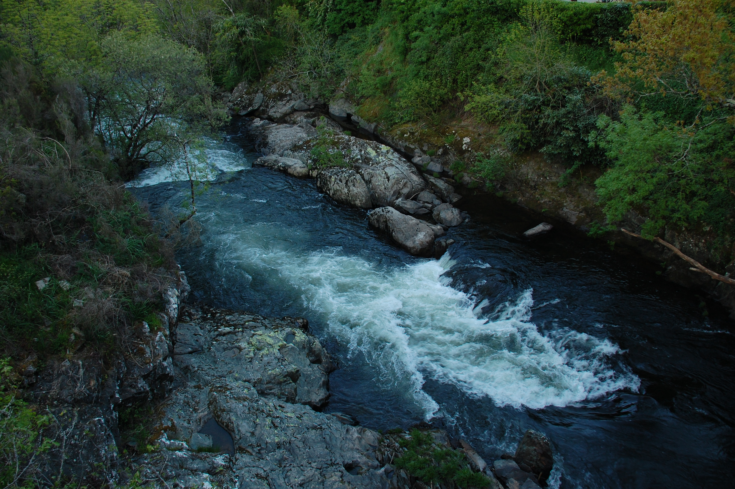 Arnego River as seen from the bridge of A Senra, in the parish of Toiriz, municipality of Vila de Cruces, Pontevedra province, Galicia, Spain, in the Sobreiral do Arnego, a Site of Community Importance. This is a photography of a Special Area of Conservation in Spain with the ID: ES1140015. Natura2000 entry, EEA entry